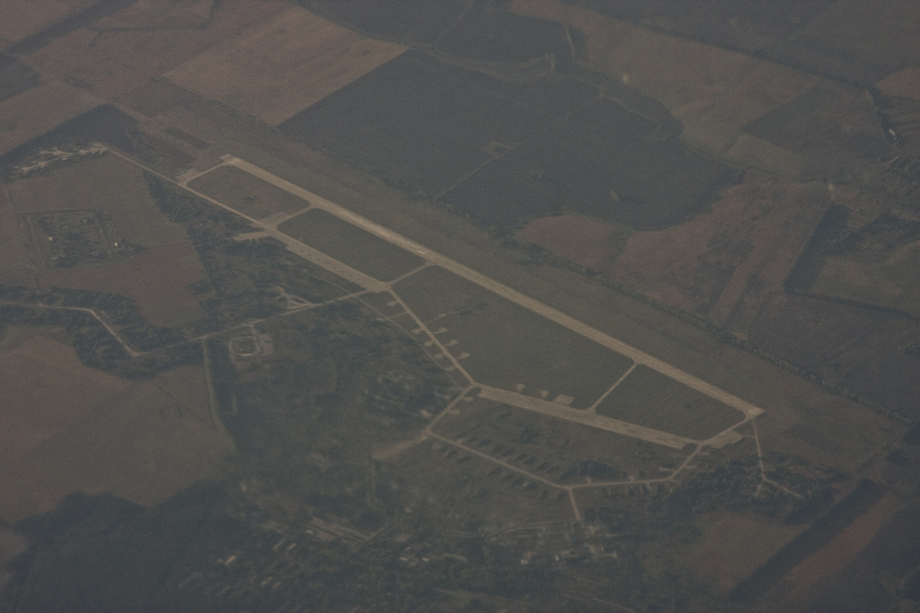 This photo was taking during my flight from Kyiv Boryspil airport to Brussels approximately 15 - 20 minutes after takeoff